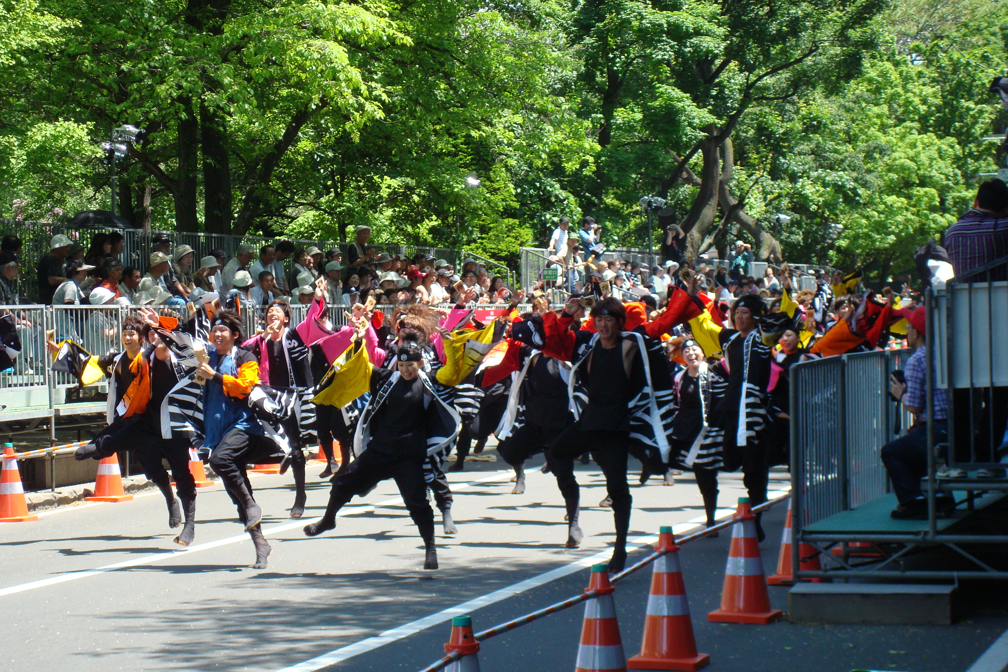 YOSAKOI Soran Festival in 2010